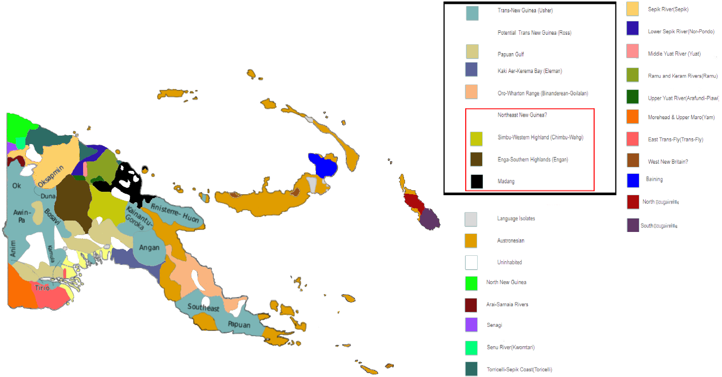 Language Families spoken in the Independent State of Papua New Guinea.